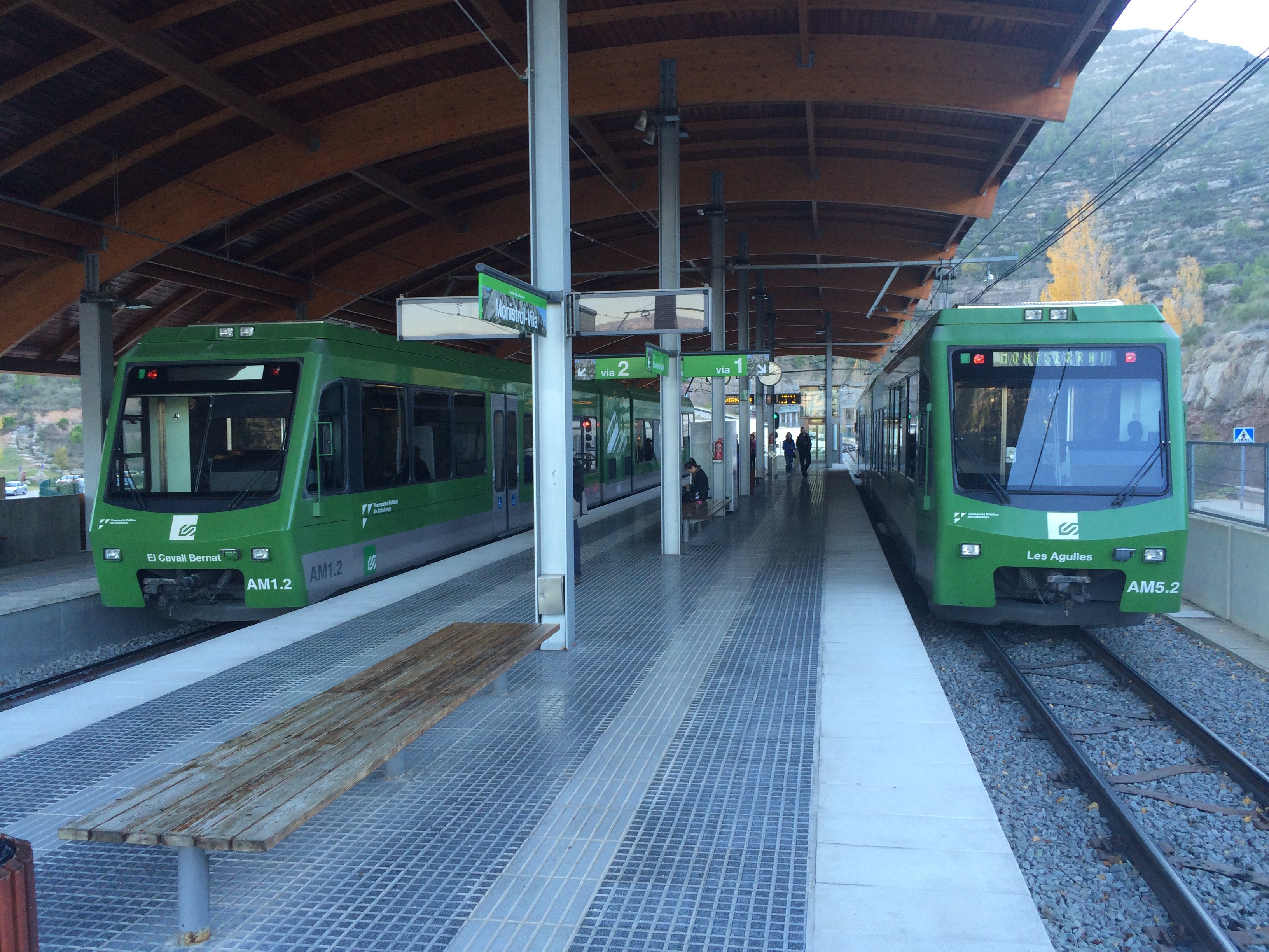 Cremallera de Montserrat rack railway in the station of Monistrol-Vila near Barcelona